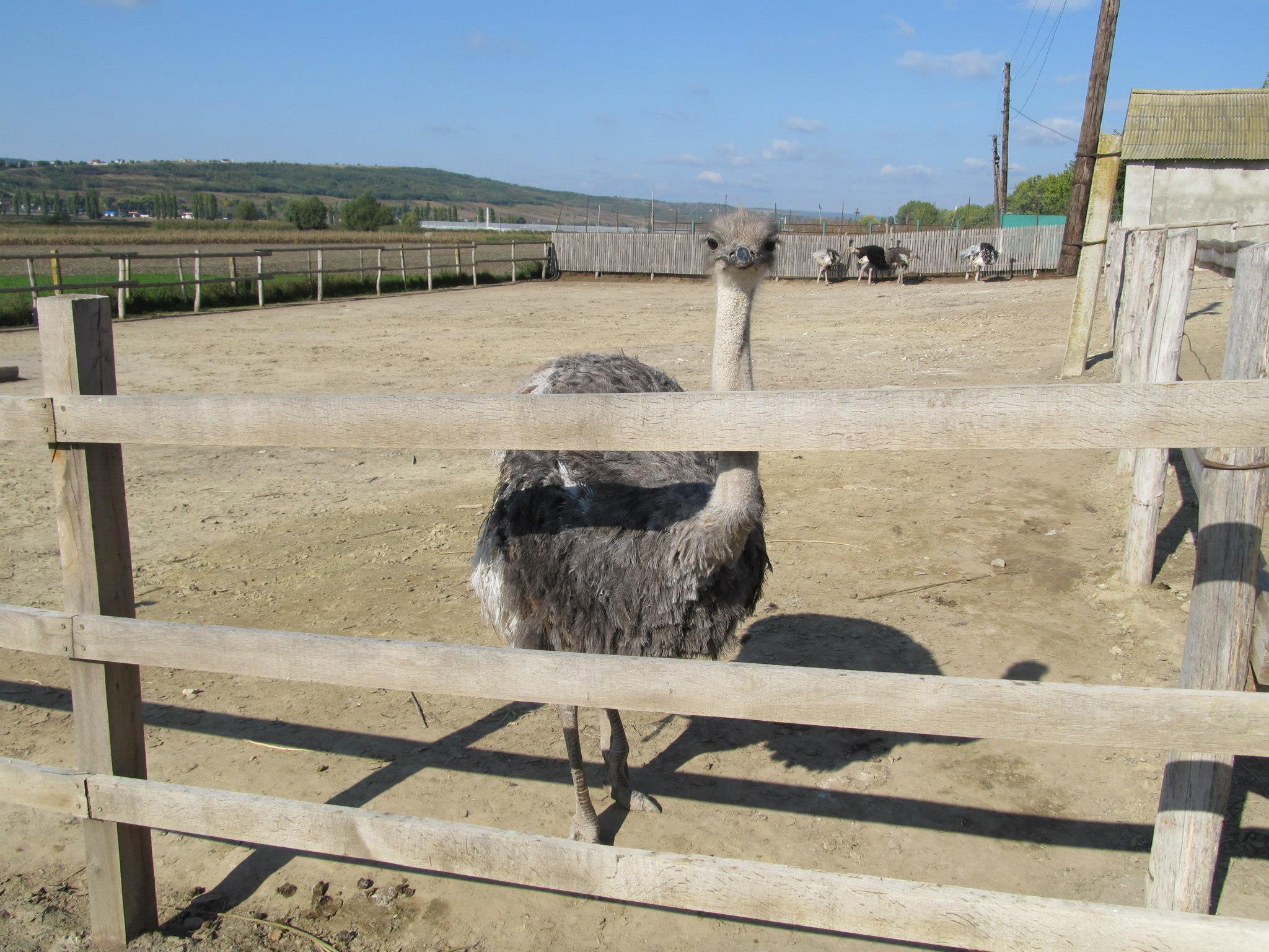 Un struț african de la menajeria din satul Bardar.